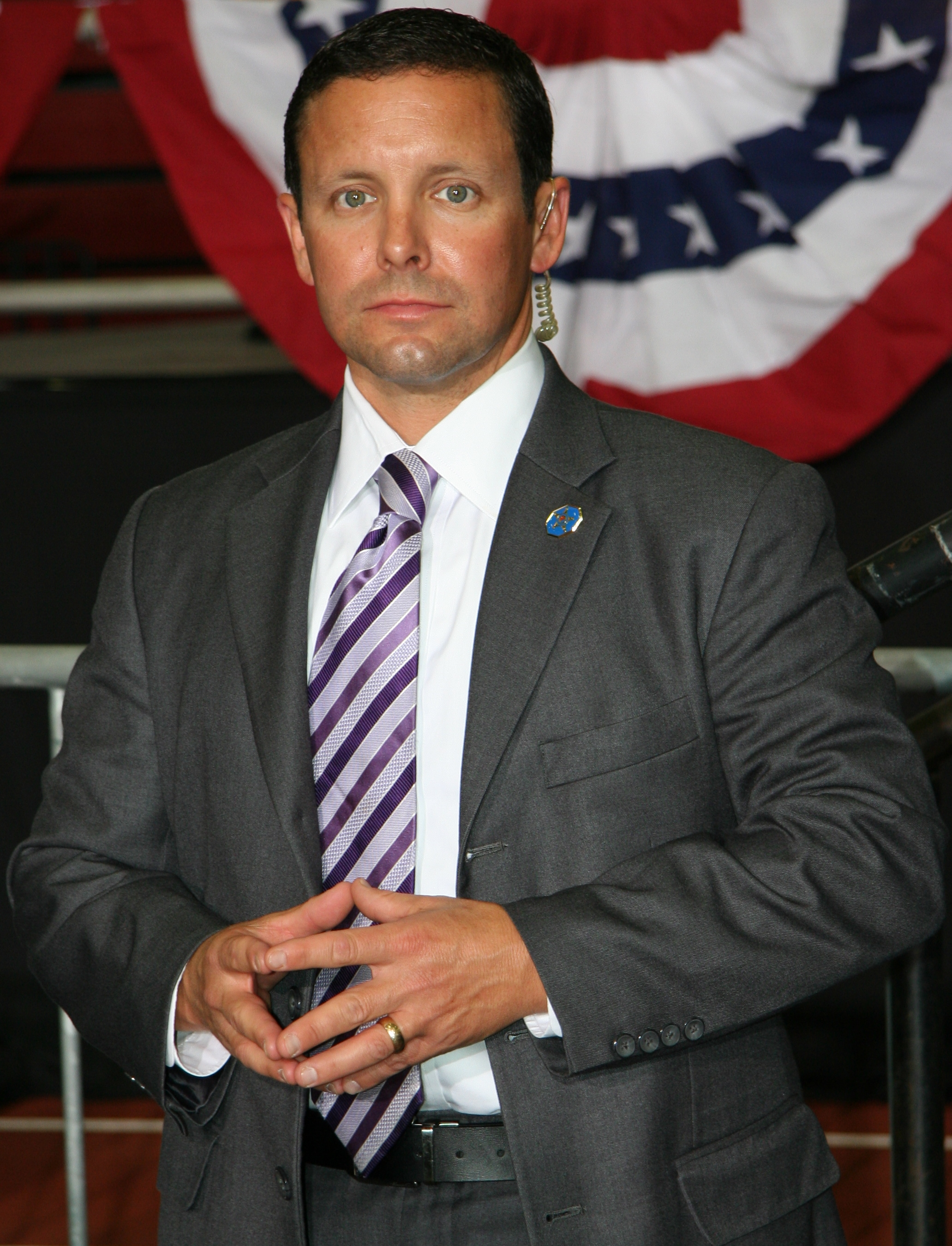 United States Secret Service agent guarding the stage where President Obama is about to speak at the University of Minnesota in Minneapolis.